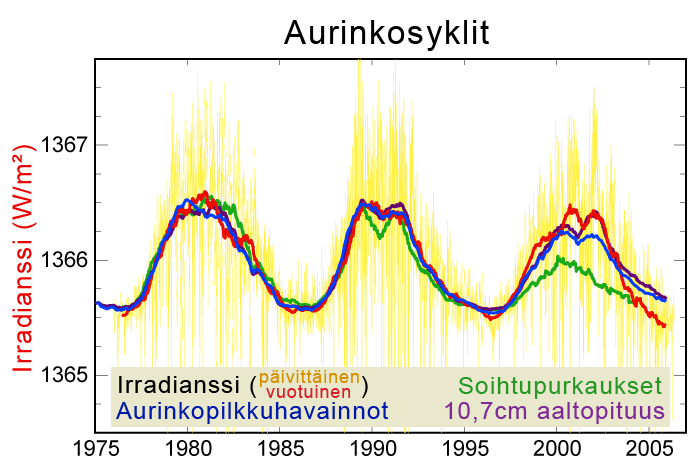 A Finnish versio of a graph showing solar cycle variations.